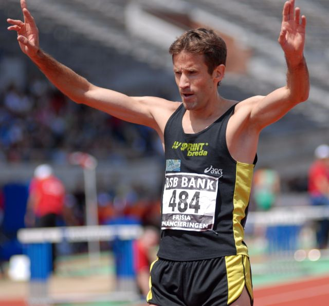 Simon Vroemen during Dutch Championship 2007 in Amsterdam